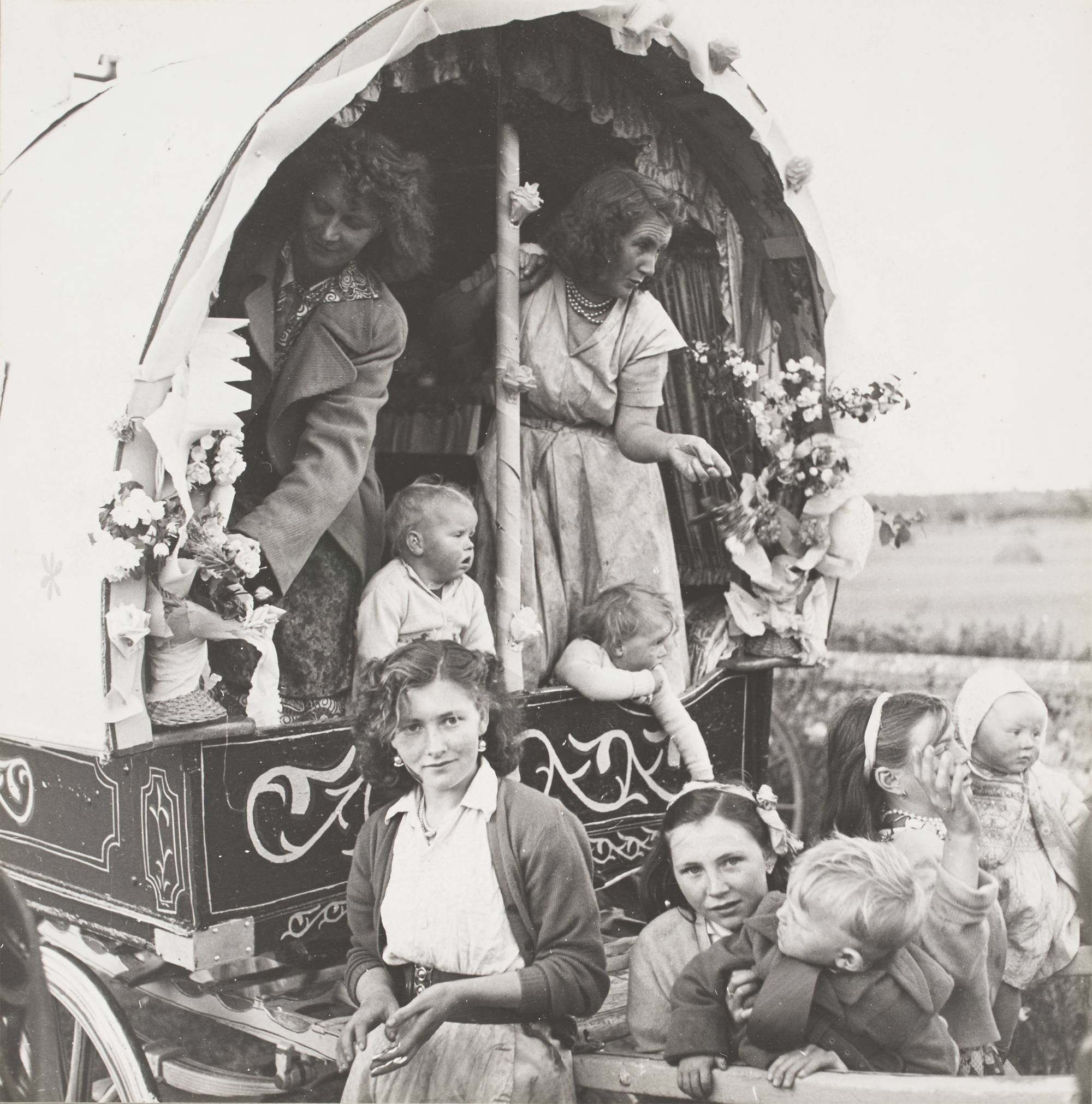 Family in their decorated caravan en route to the Cahirmee Horse Fair at Buttevant, Co. Cork. Thanks to Frank Fullard for letting us know that "the fair of Cahirmee (which is now actually held in Buttevant) is still going strong and the members of the travelling community are still as much a part of it as ever." In fact, Frank took some great photos at the Fair in 2011... Date: July 1954 NLI Ref.: WIL m12[54]